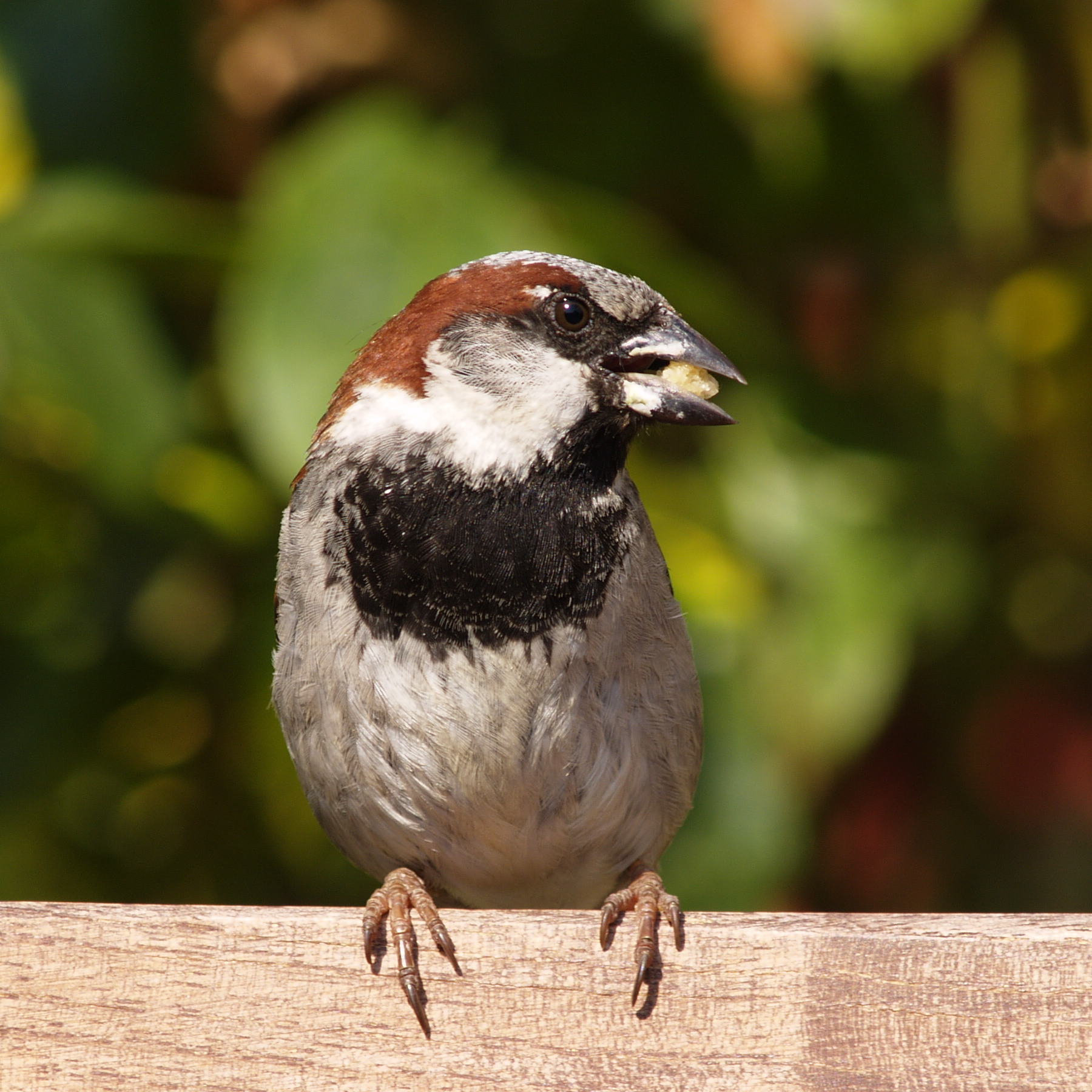 Male House Sparrow on a chair